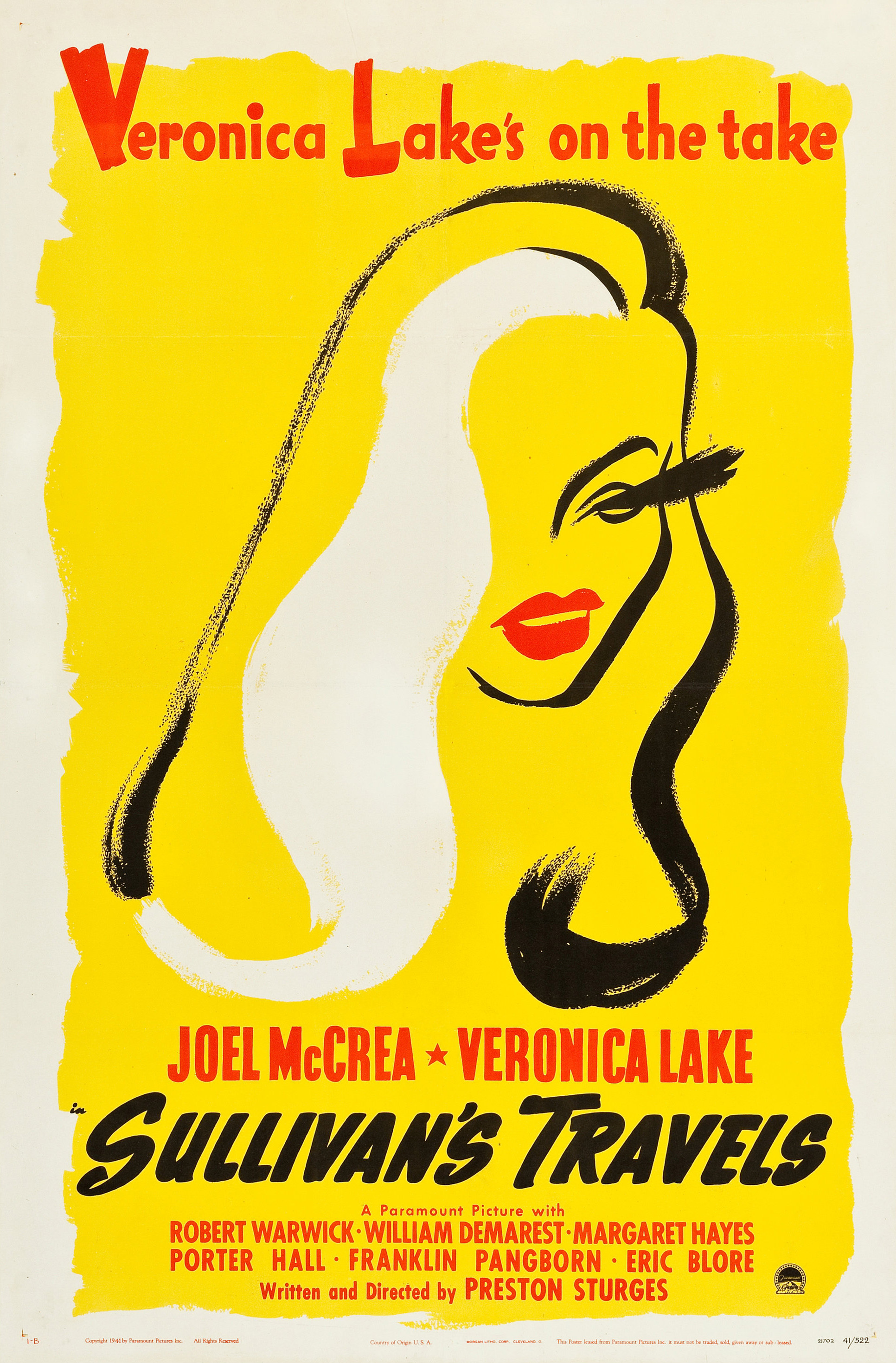 "Style B" theatrical poster for the 1941 film Sullivan's Travels.